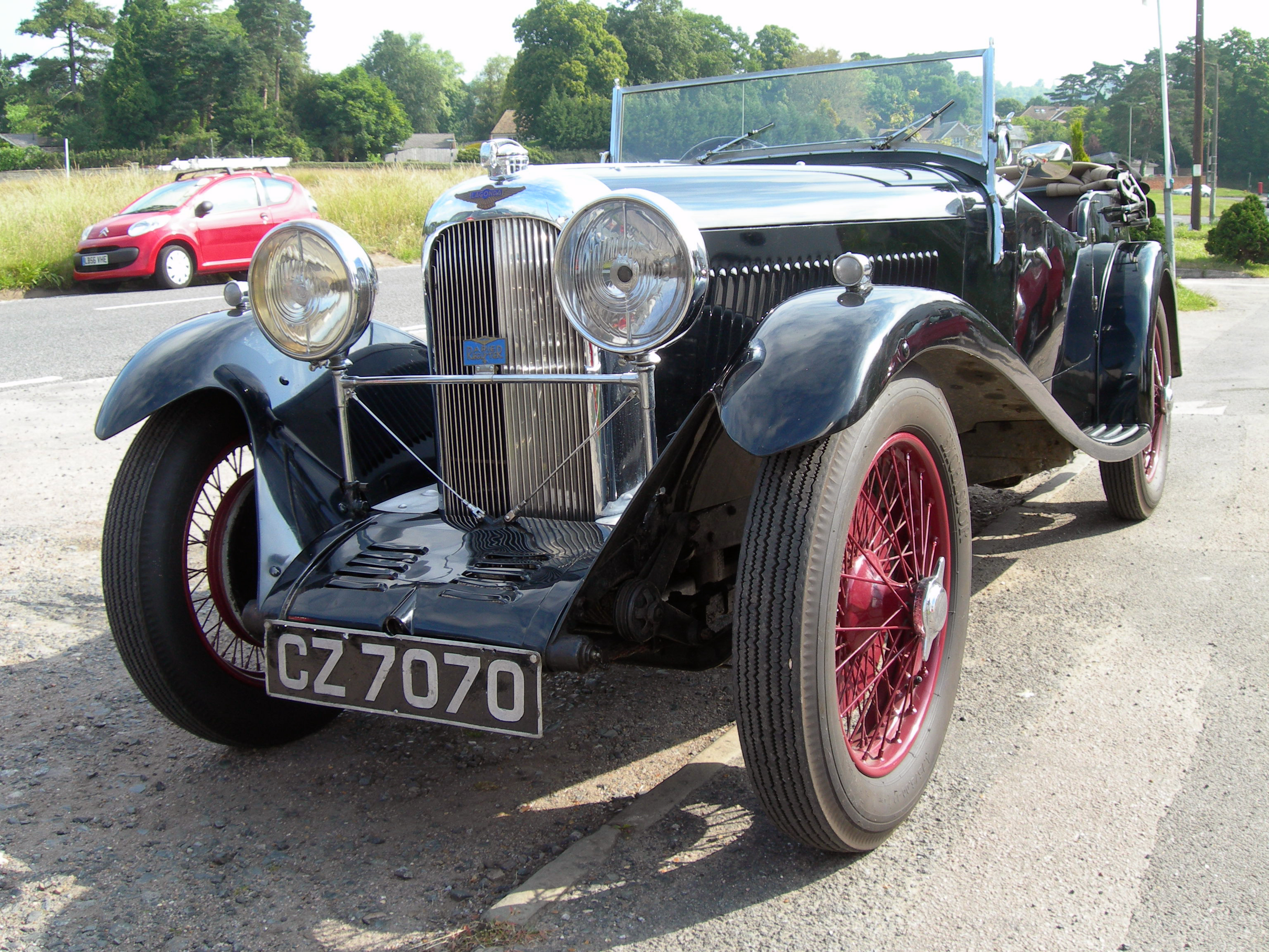 Lagonda Rapier tourer(DVLA) first registered 31 December 1934, 1141cc(?)Reigate,June 2009